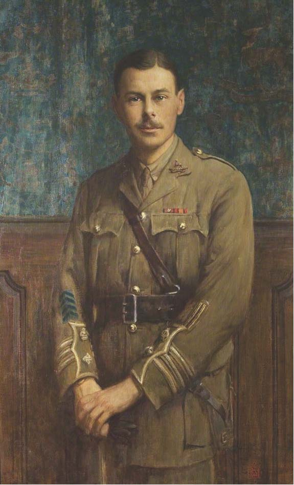 Portrait of Lieutenant-Colonel James Meldrum Knox